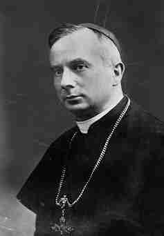 Cardinal Edmund Dalbor, Primate of Poland